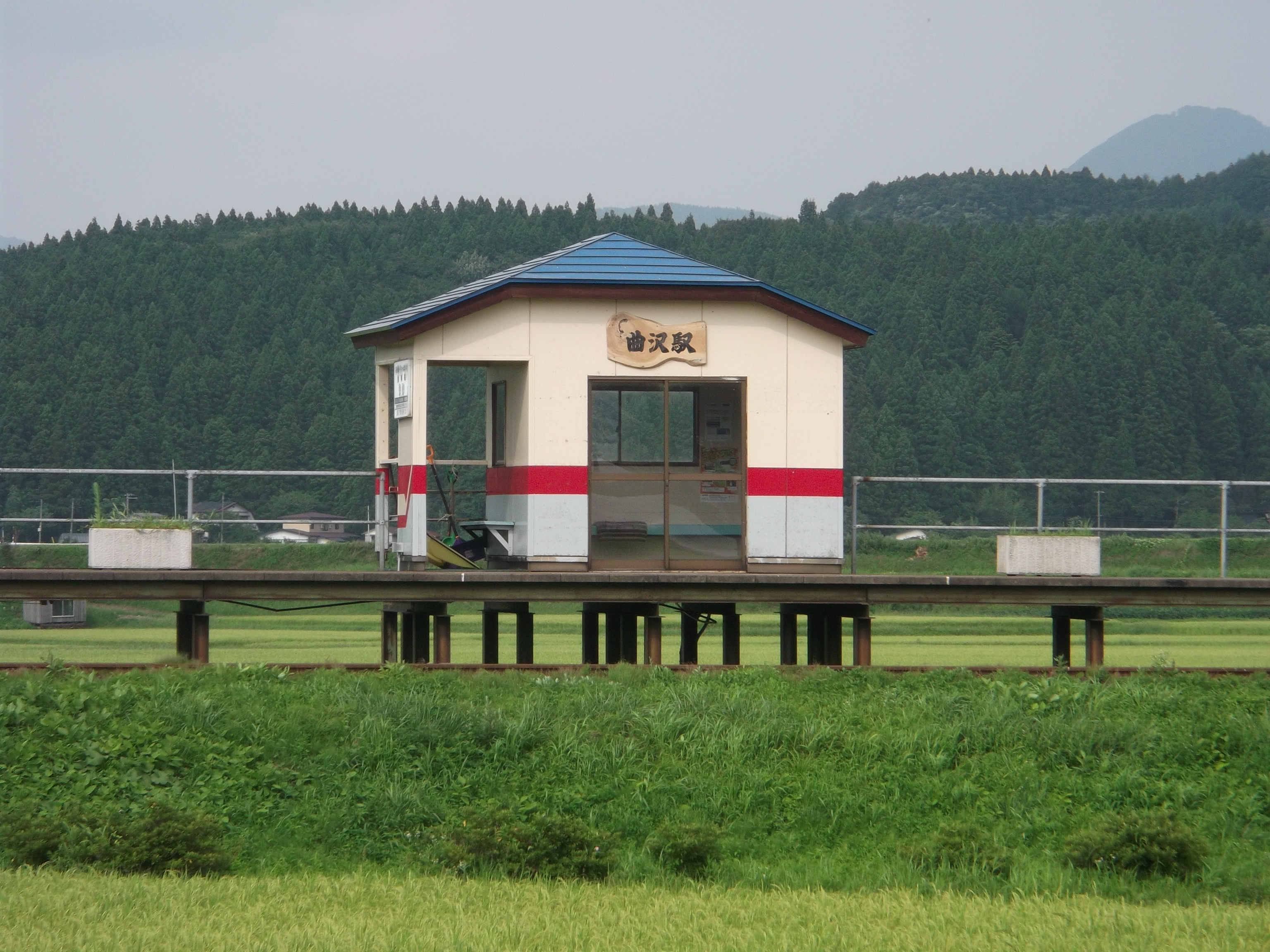 Magarisawa Station in Akita Prefecture, Japan